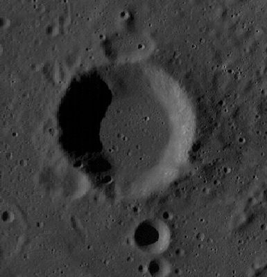 LROC image WAC No. M118471061ME. Calibrated by LROC_WAC_Previewer.